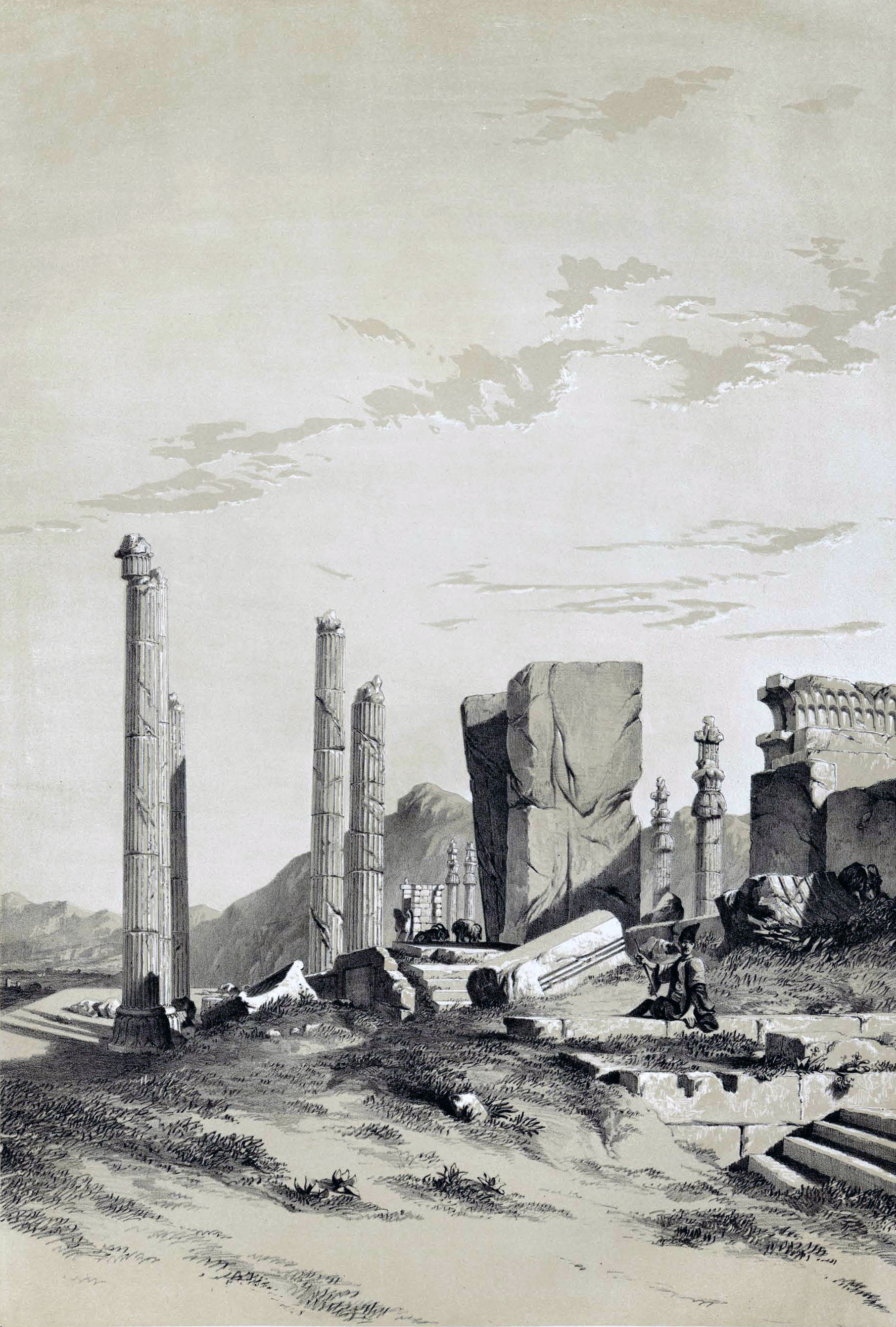 Persepolis , view the ruins